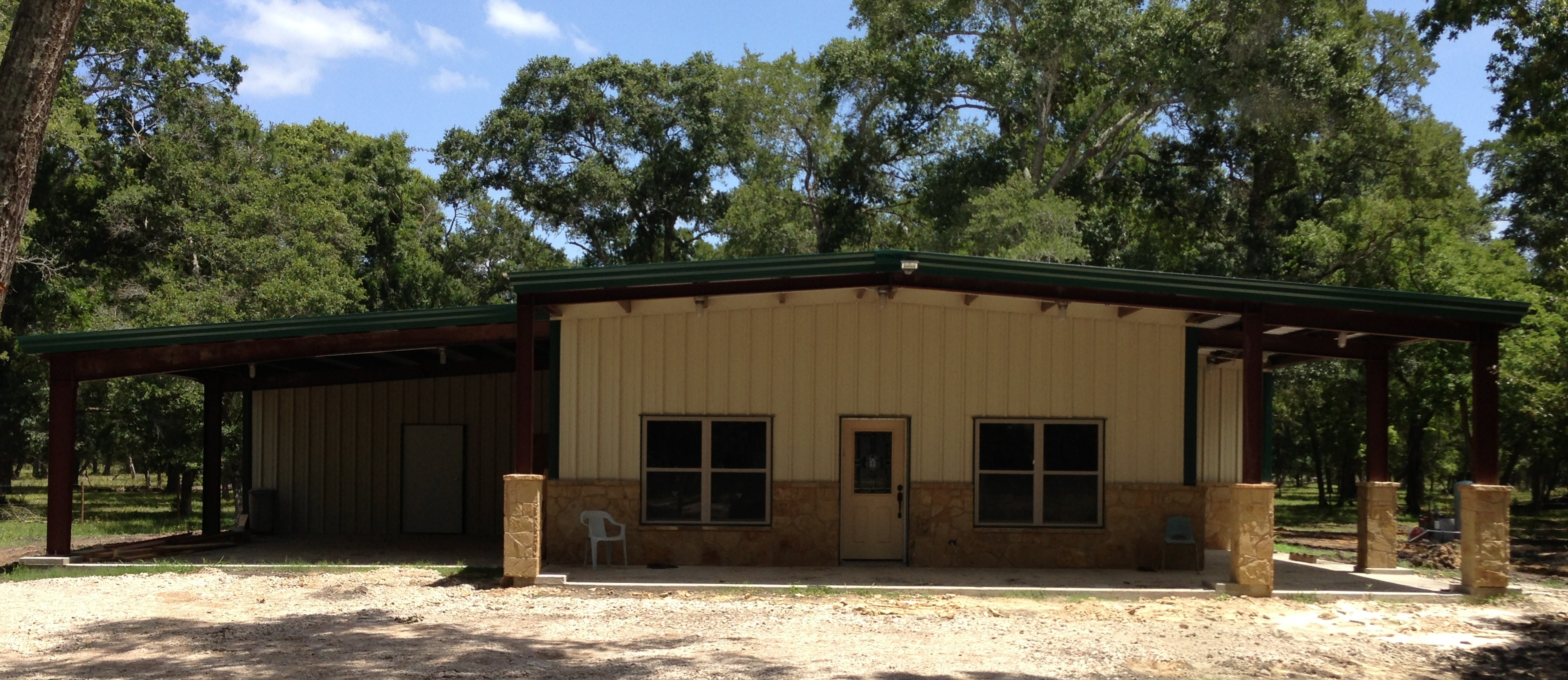 Kainos Steel custom Barndominium located near Houston, TX.